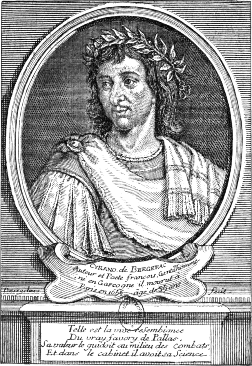 Cyrano de Bergerac (1619 – 1655) French dramatist and soldier, author of The Comical History of the States and Empires of the Moon and The Comical History of the States and the Empires of the Sun. Legend: Telle est la vive ressemblance / Du vray favori de Pallas / Sa valeur le guidoit au milieu des combats, / Et dans son cabinet il avoit sa Science.